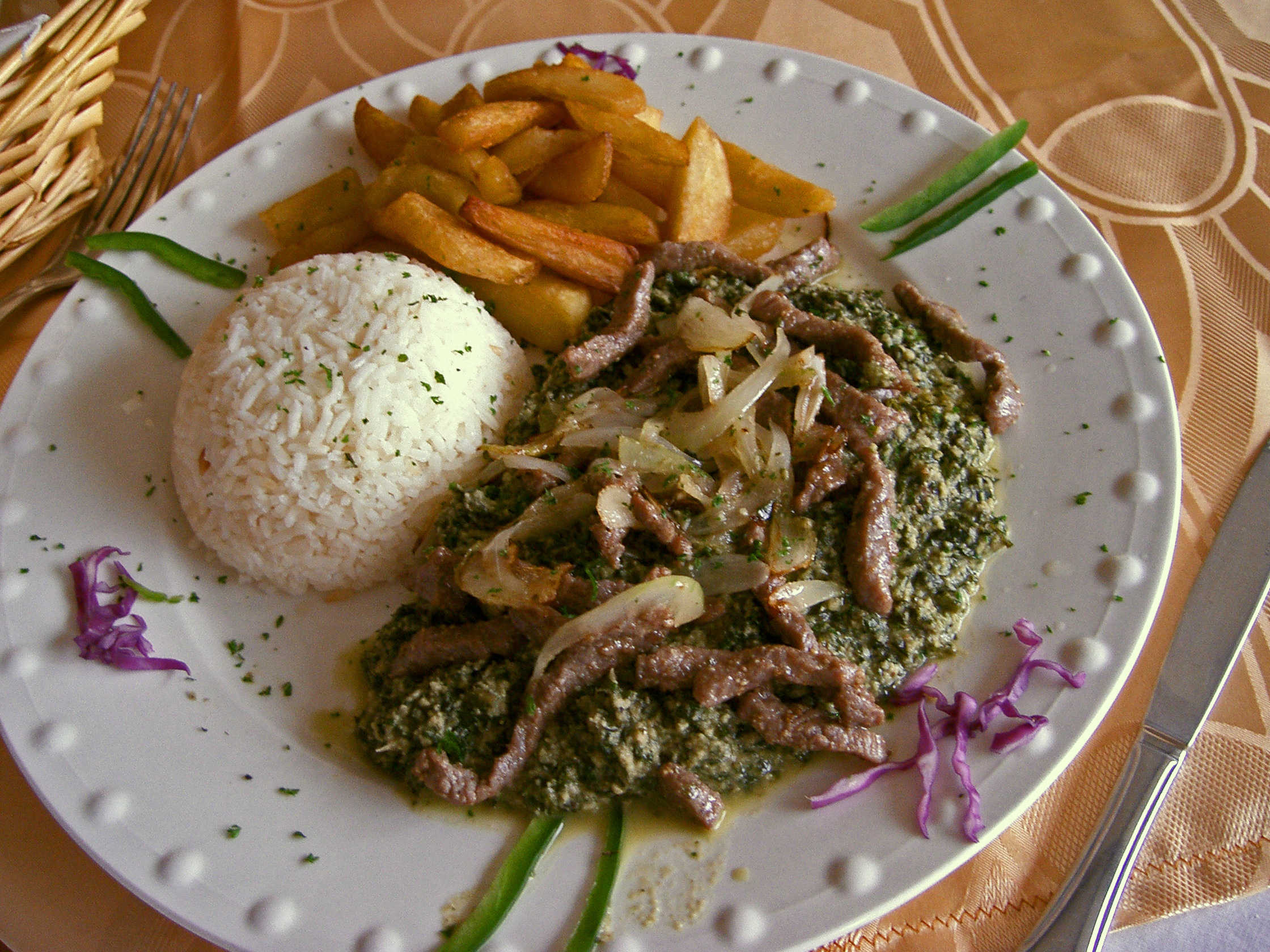 (Google Translate) The Cameroonian ndolé is a dish prepared with green leaves of Vernonia cooked several times with water to make them lose their bitterness and then mixed with a paste of raw peanuts and crushed spices. We add slices of cooked meat or fish. It is normally served with bananas and rice plaintins fris. Here are not bananas but potatoes.